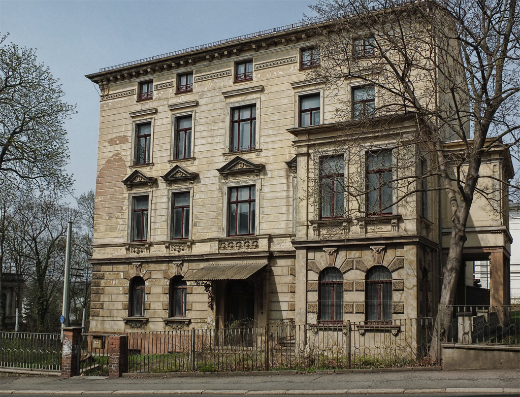 Villa Münch/Ferber at Clara-Zetkin-Straße 11, Gera, Deutschland; built in 1865/67 by architect W. Haupt.